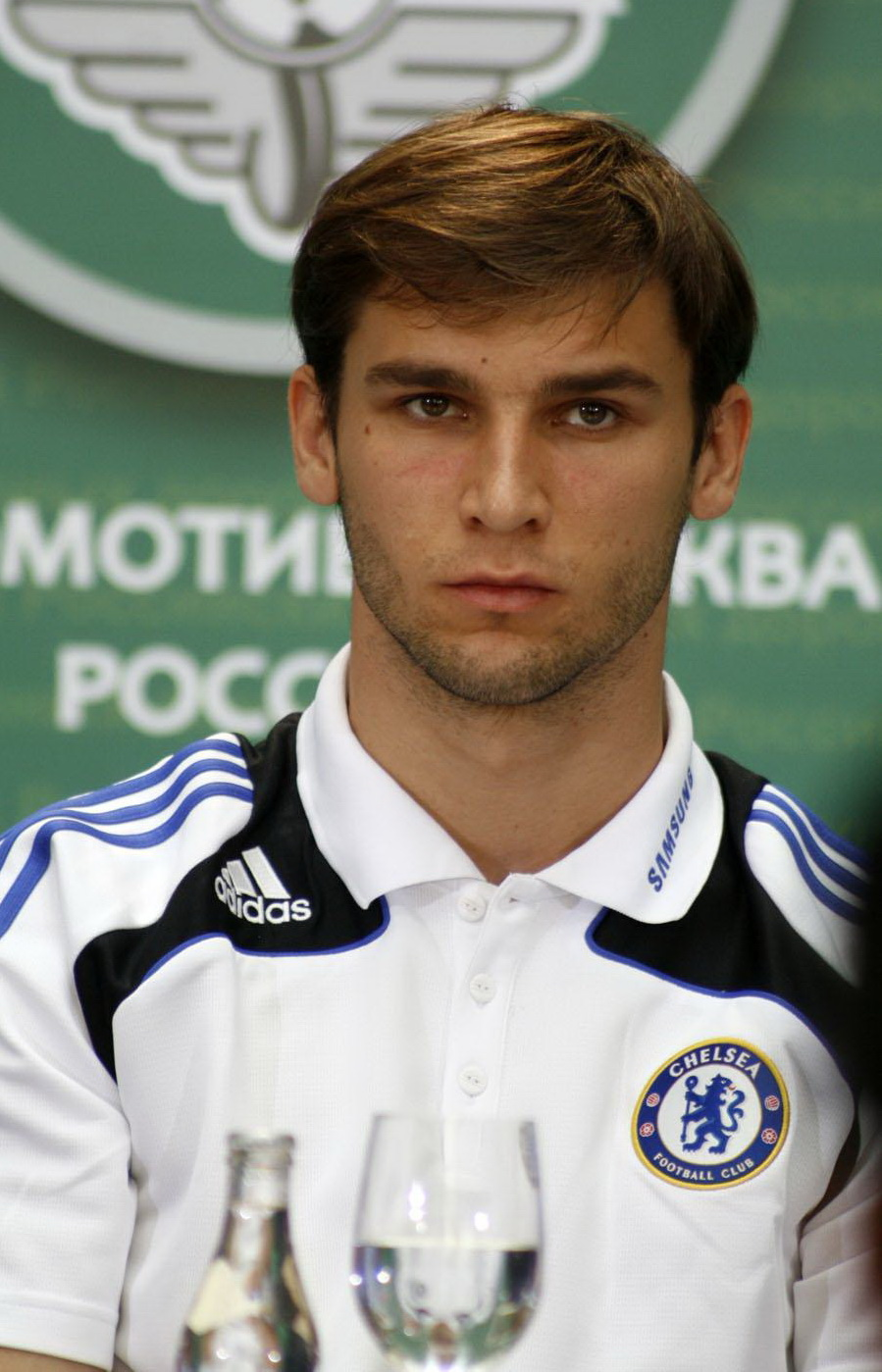 Branislav Ivanović